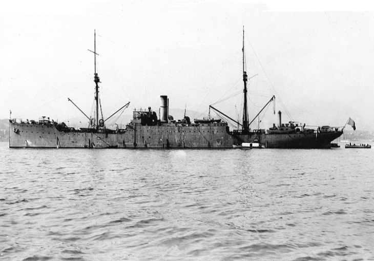 The U.S. Navy repair ship USS Vestal (AR-4) photographed circa the early 1920s.